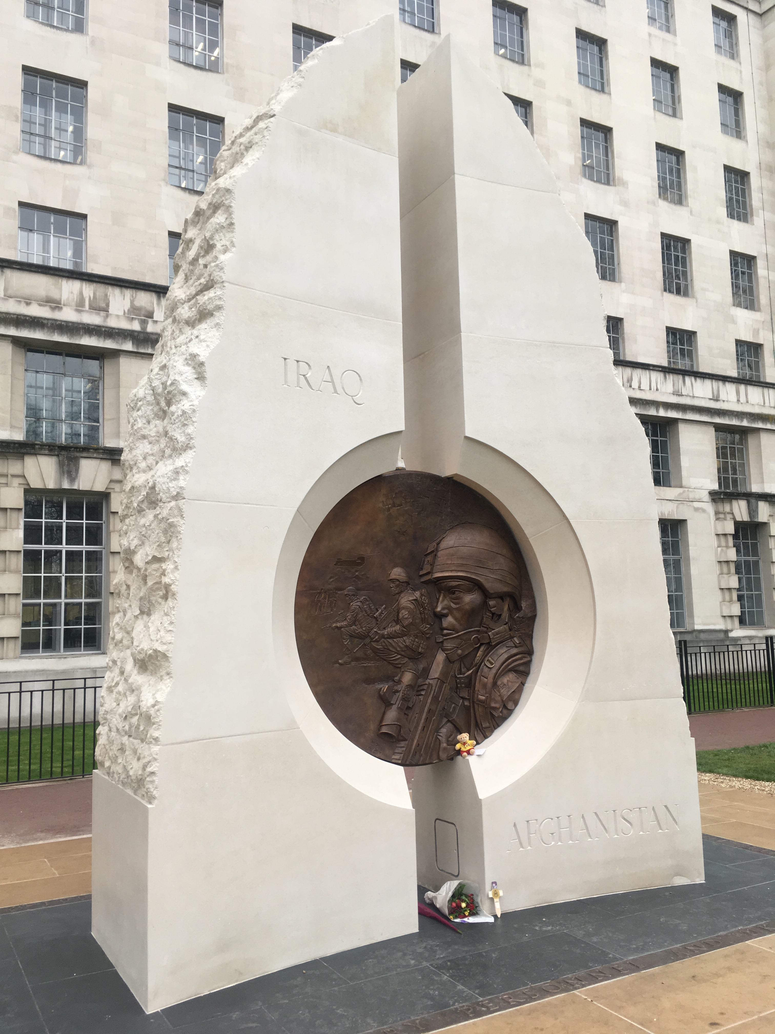 The Iraq and Afghanistan Memorial in profile